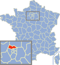 Map of France with highlighted #94 department.